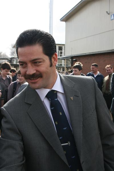 Corporal Bill Apiata VC during a visit to a school in New Zealand